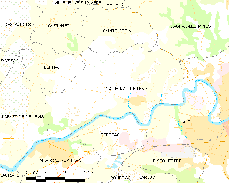 Map of French municipality Castelnau-de-Lévis